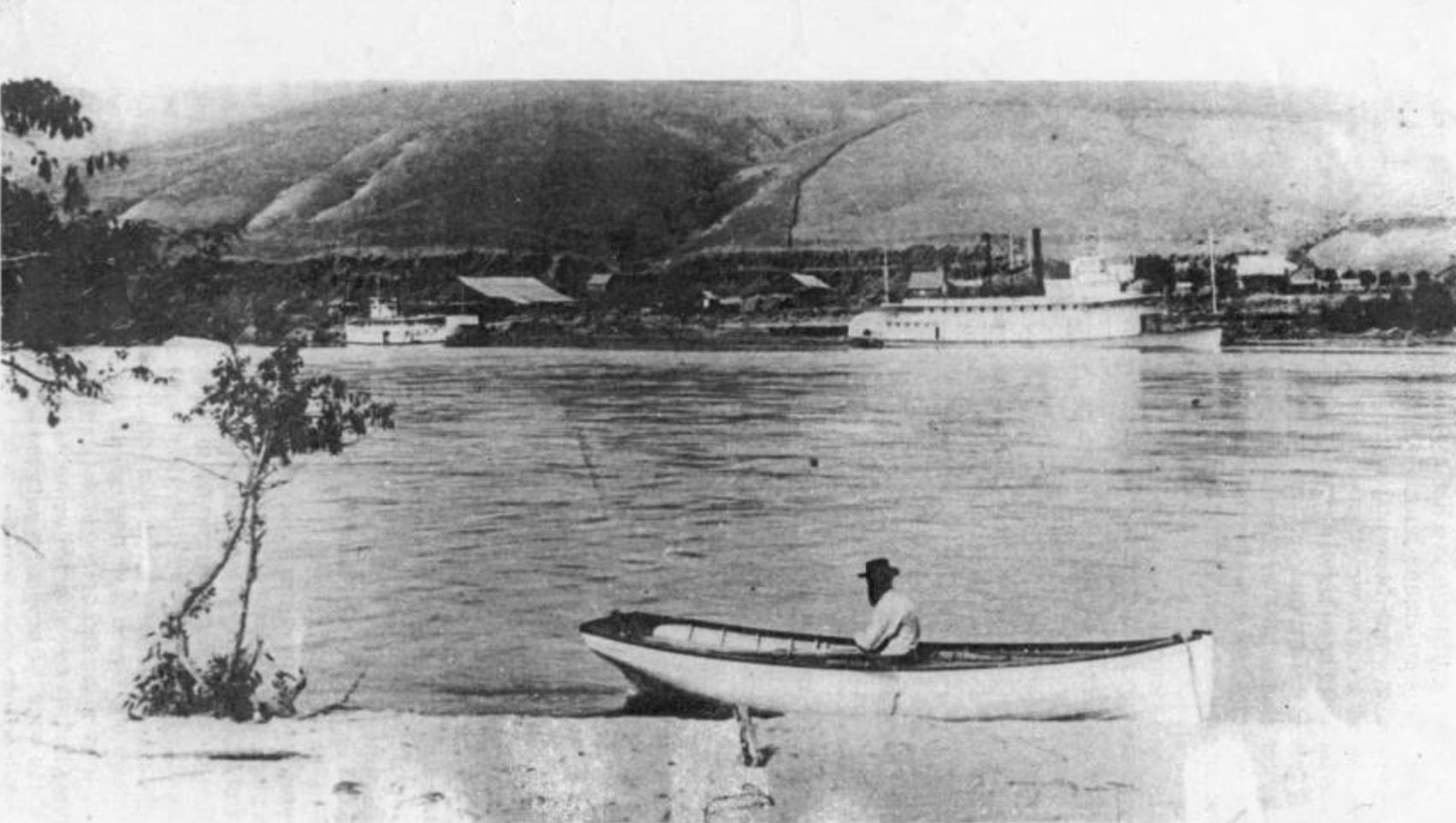 Steamers Harvest Queen on right, Almota on left, at Almota, WT, on the Snake River, in 1880.